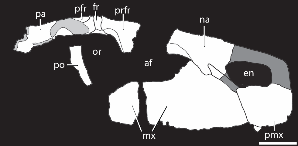 Reconstructed skull of the holotype of Asperoris mnyama (NHMUK PV R36615) in right lateral view. Light gray color indicates incomplete surfaces and dark gray colour hypothesizes the shape of the external naris based on the preserved potions of the nasal and premaxilla. Scale = 5 cm. Abbreviations: af, antorbital fenestra; en, external naris; fr, frontal; mx, maxilla; na, nasal; or, orbit; pa, parietal; pfr, postfrontal; pmx, premaxilla; po, postorbital; prfr, prefrontal.